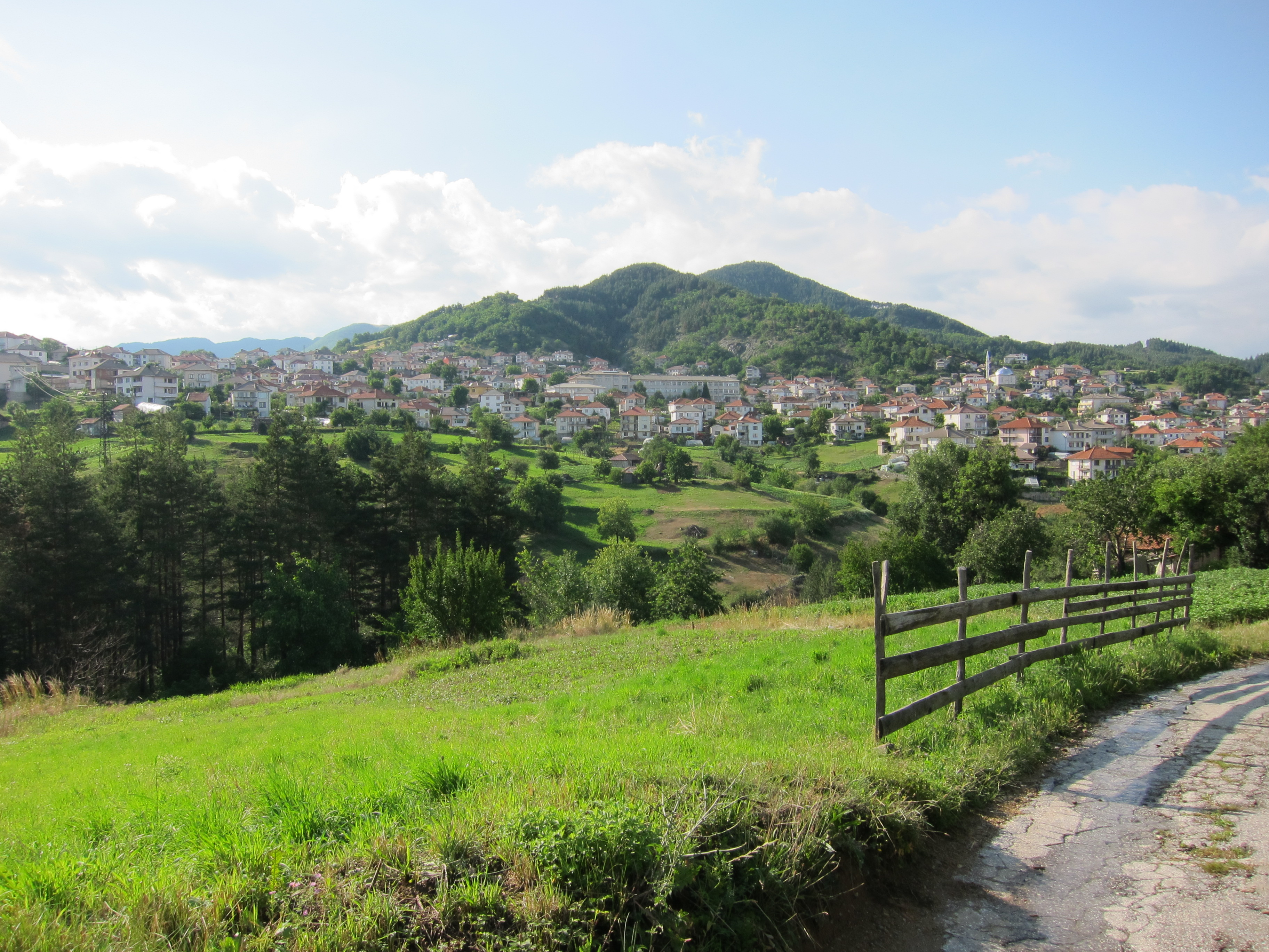 The Bulgarian village Startsevo in the Southeastern Rhodope mountains (Stratsevo, Bulgaria, Zlatograd municipality, Smolyan province)